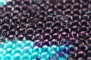 A close-up image of the fabric Rayon for the Rayon article on Wikipedia. Taken using a Sony W7 digital camera equipped with macro lenses. The fabric is a skirt. The image is my own, released for all use.